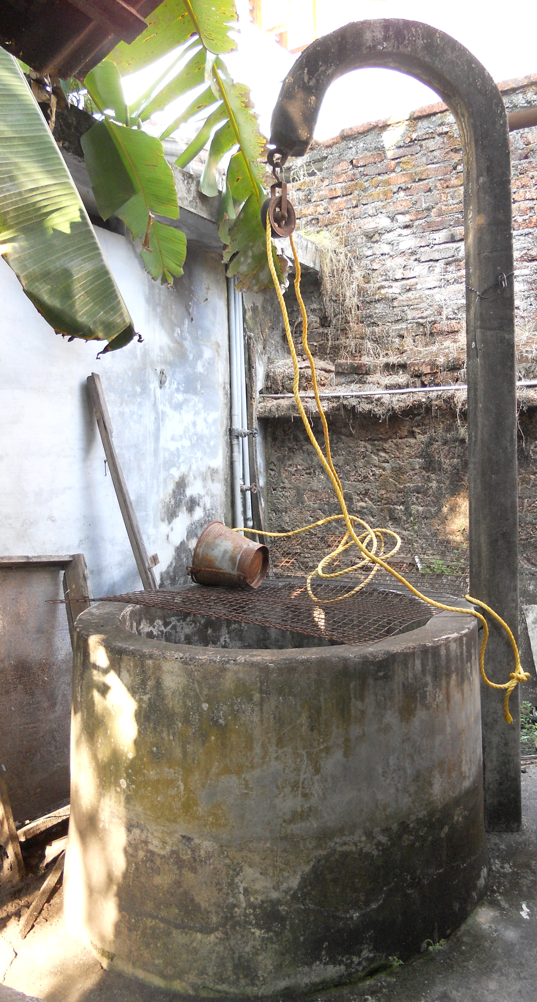 A hand-drawn water well in Kollam,Kerala, India.